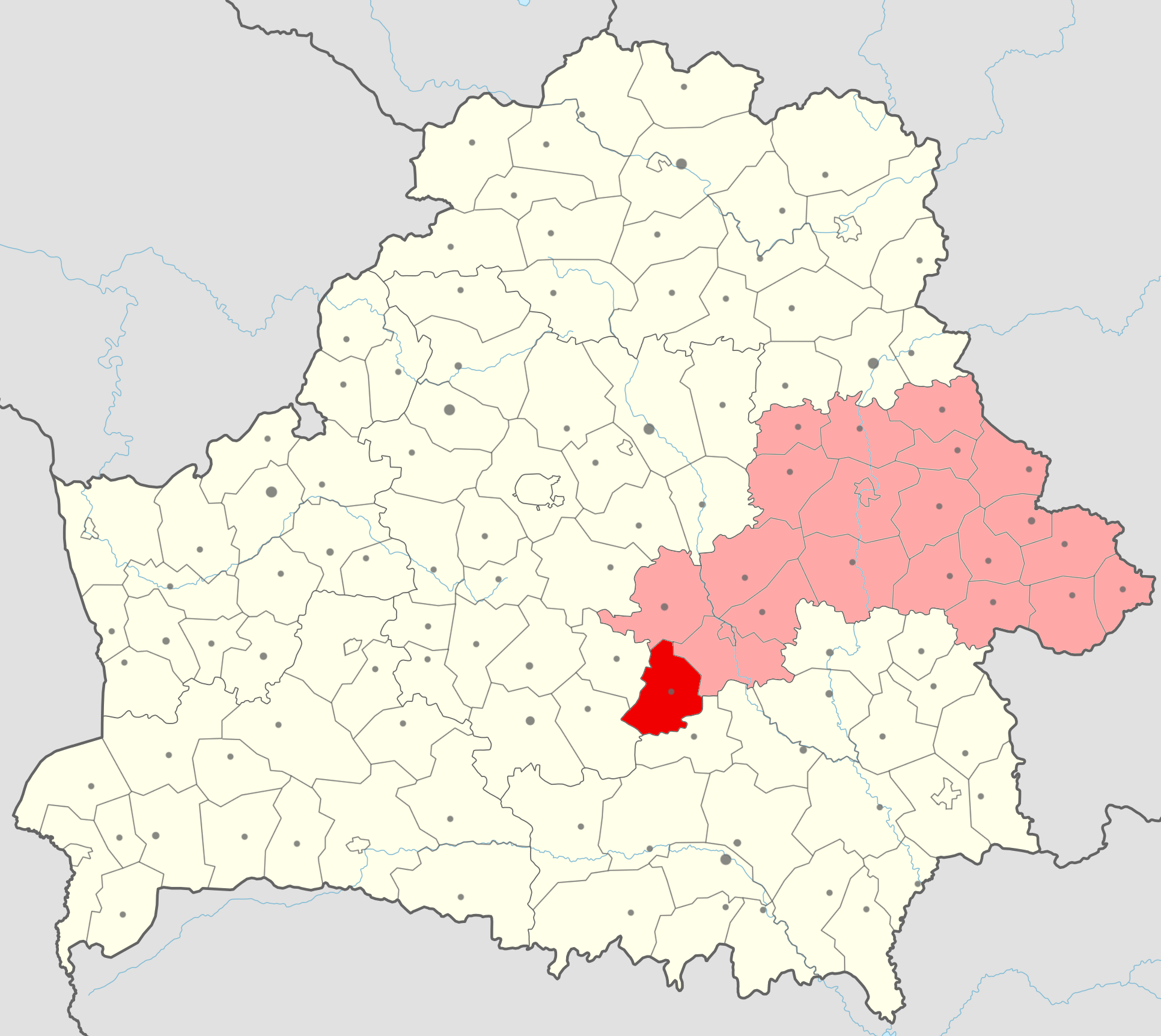 Location of Hluski rajon (red) in Mahilioŭskaja voblasć (light red) in Belarus.